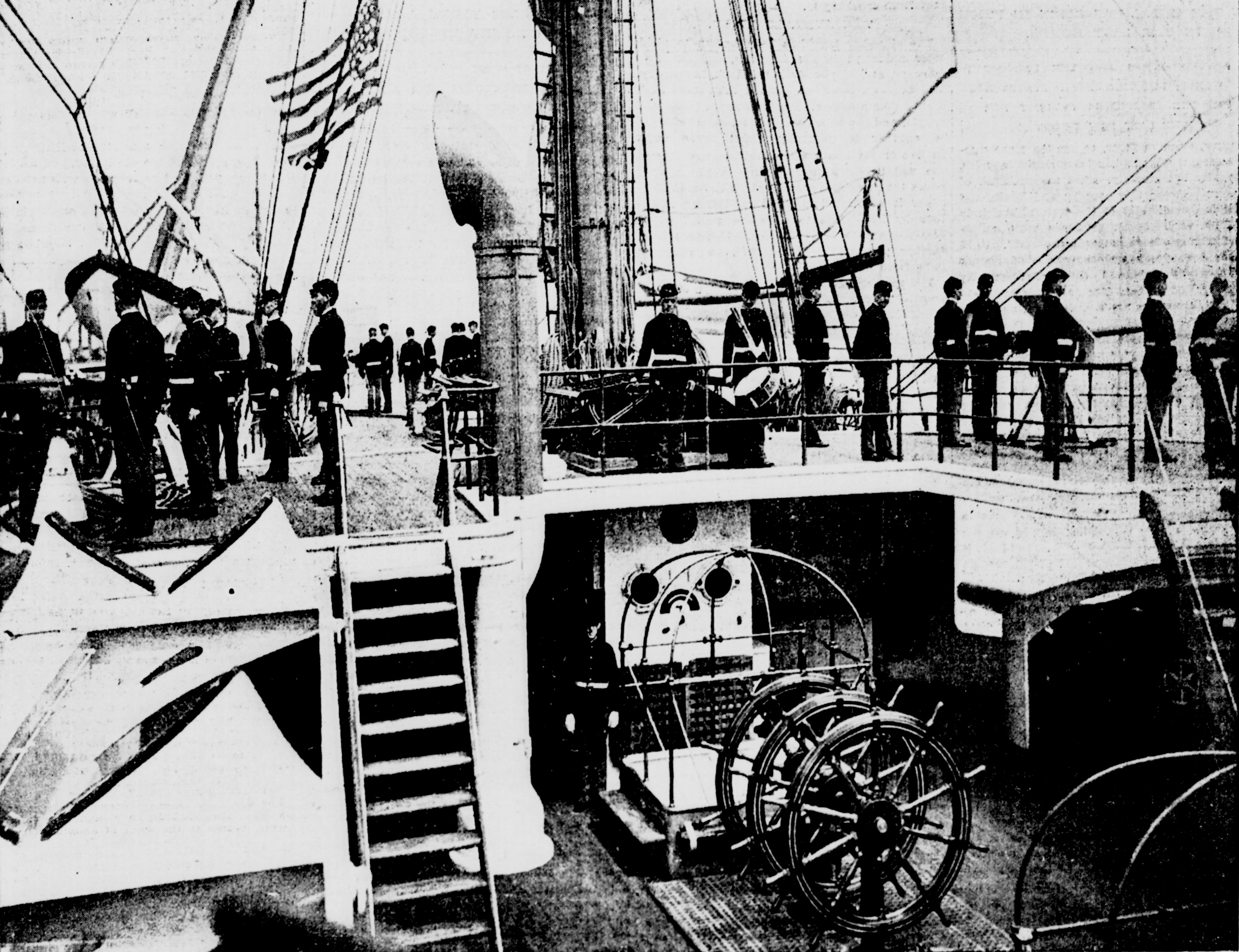 Original Caption: Marines manning the secondary battery on board the USS Newark